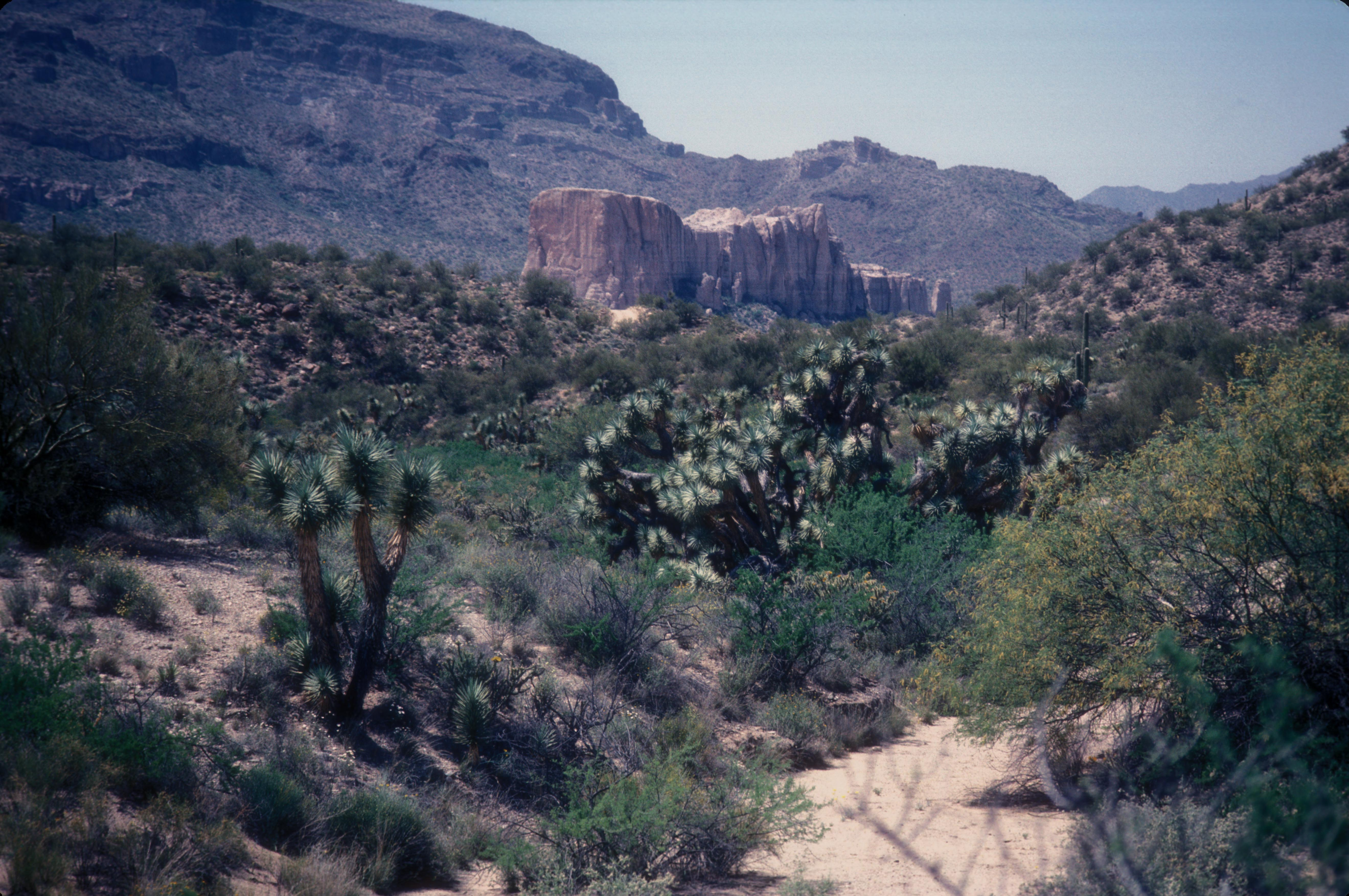 STRETCH OF U.S. 93 IN YAVAPAI COUNTY NORTHWEST OF WICKENBURG IN A REMOTE AREA